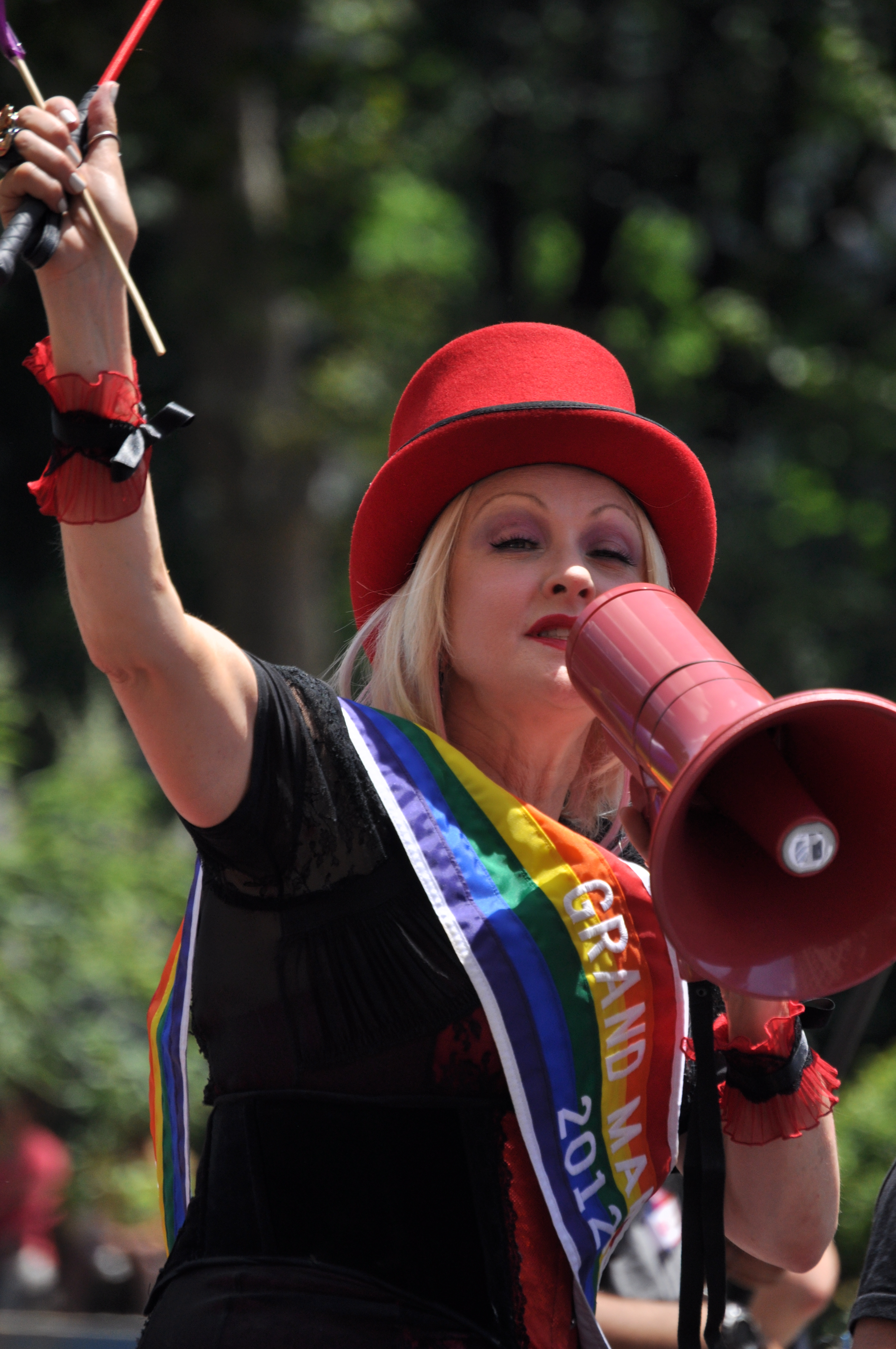 Cyndi Lauper, as grand marshal, leads the 2012 NYC Pride Parade on Sunday, June 24.Location: New York, N.Y., U.S.A.Event type: Pride ParadeDate or year: June 24, 2012